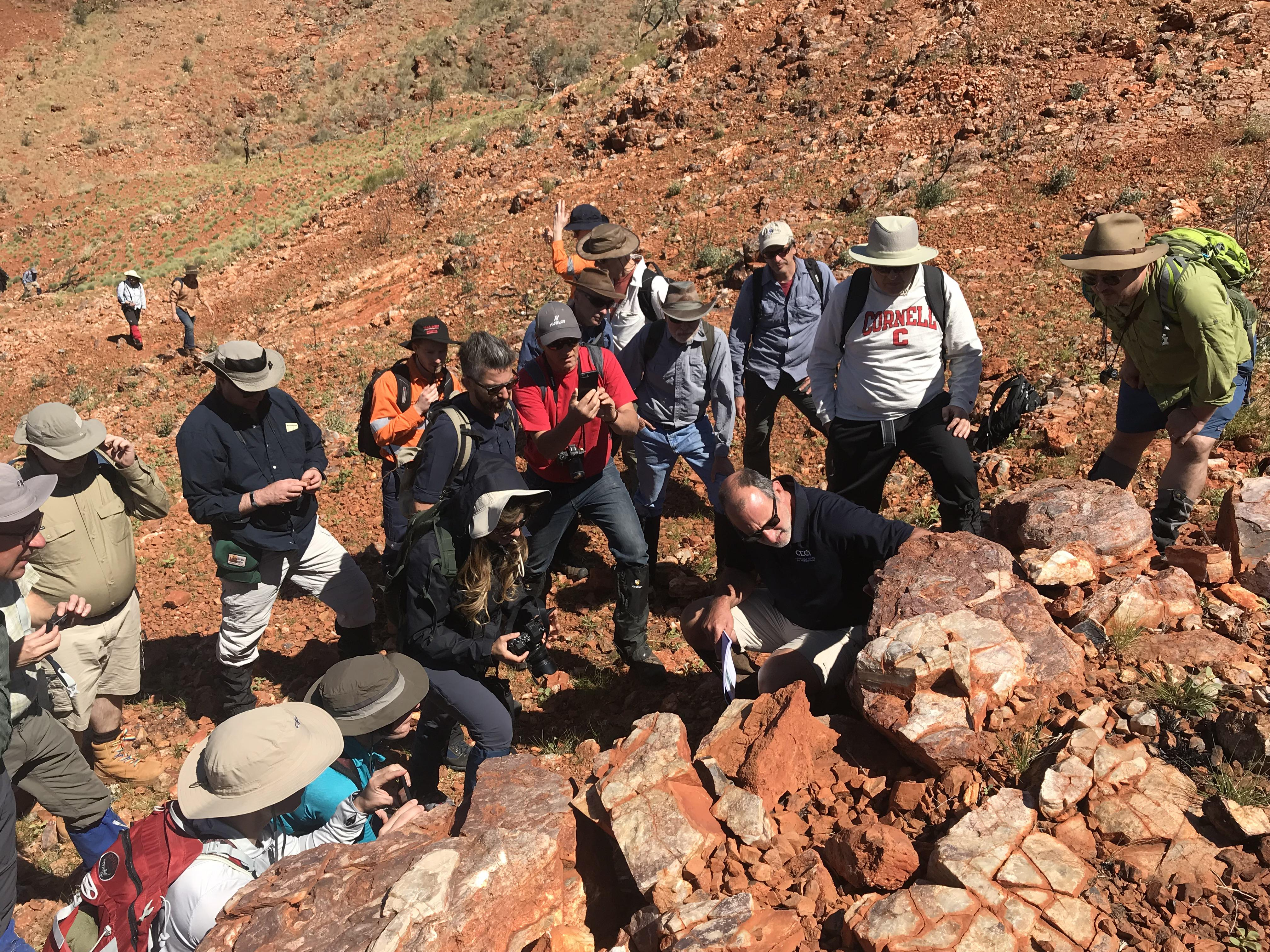 PIA23551: Researching Outback Stromatolites Scientists from NASA's Mars 2020 and ESA's ExoMars projects study stromatolites, the oldest confirmed fossilized lifeforms on Earth, in the Pilbara region of North West Australia. The image was taken on Aug. 19, 2019. JPL is building and will manage operations of the Mars 2020 rover for the NASA Science Mission Directorate at the agency's headquarters in Washington. For more information about the mission, go to